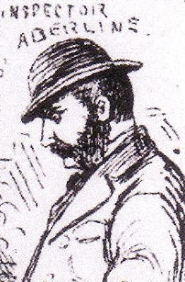 Frederick Abberline questioning a witness. Illustration published in The Illustrated Police News (November 24, 1888).